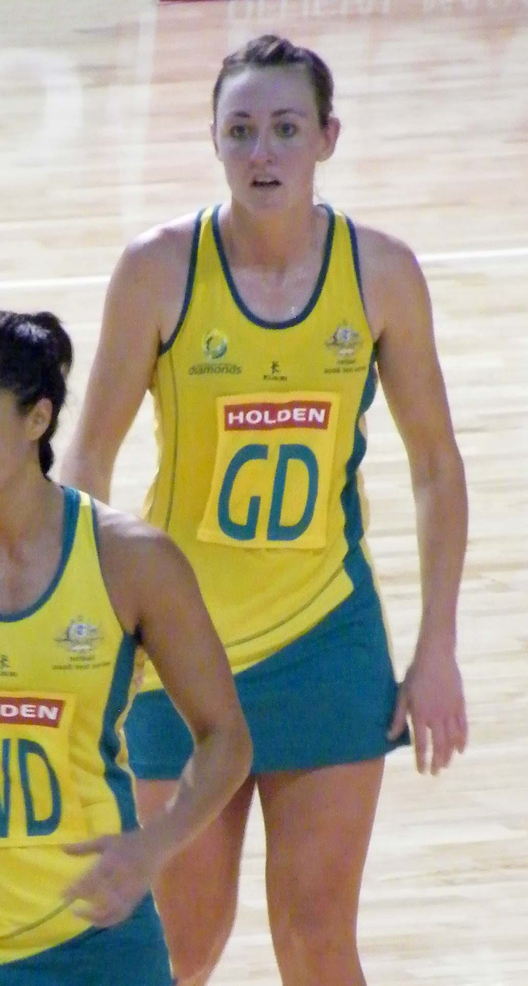 Australia v England - Netball Test - Adelaide, October 2008.